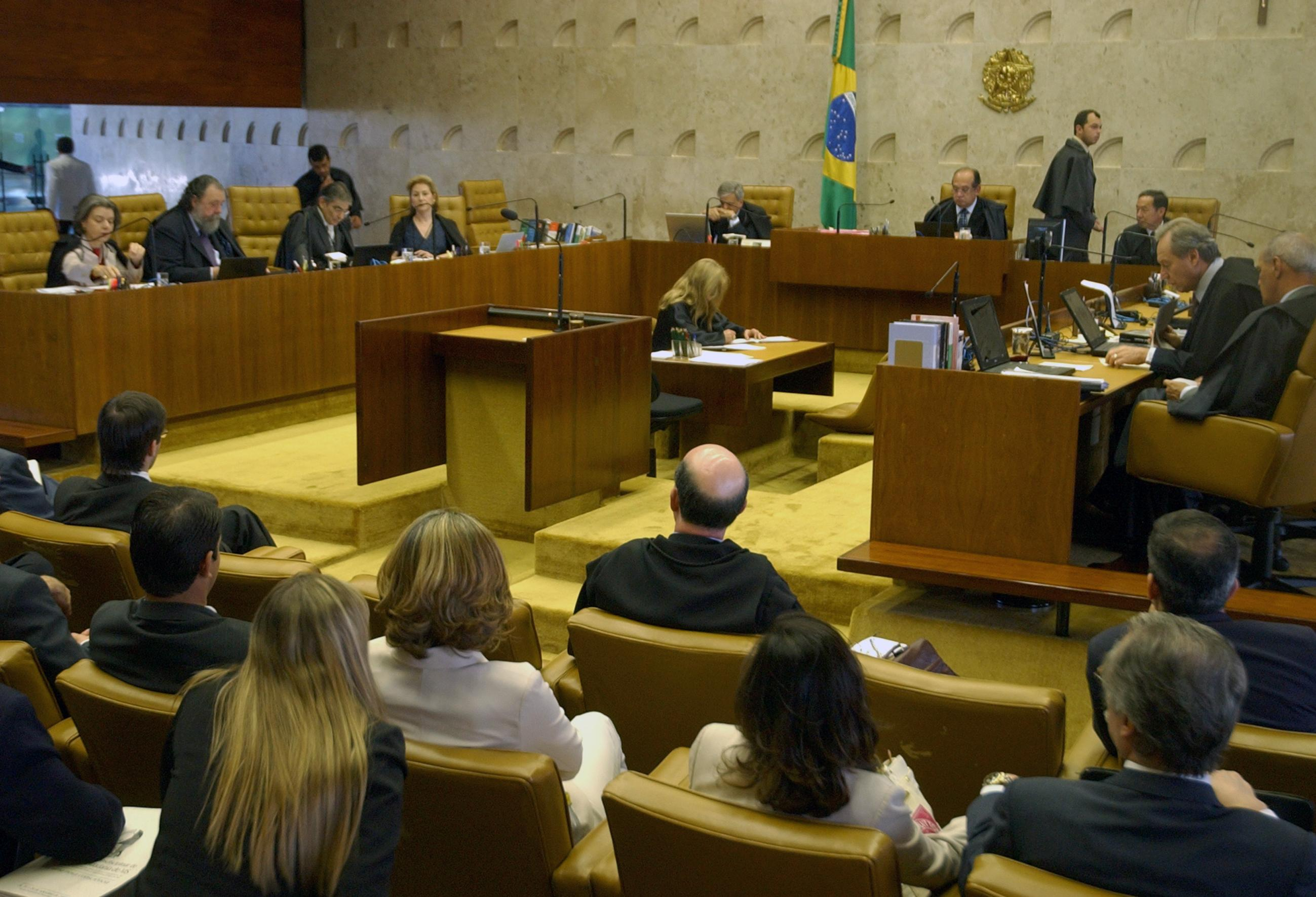 The Federal Supreme Court (STF) unanimously decided on Thursday (August 7, 2008) that the use of handcuffs should only be adopted in extremely exceptional cases, as it violates the principle of human dignity.